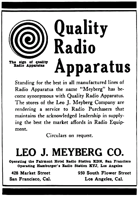 In 1922 the Leo J. Meyberg Company sold electrical equipment and also operated two radio broadcasting stations: KDN, located at the Fairmont Hotel in San Francisco, and KYJ, located at the Hamburger's Department Store in Los Angeles.